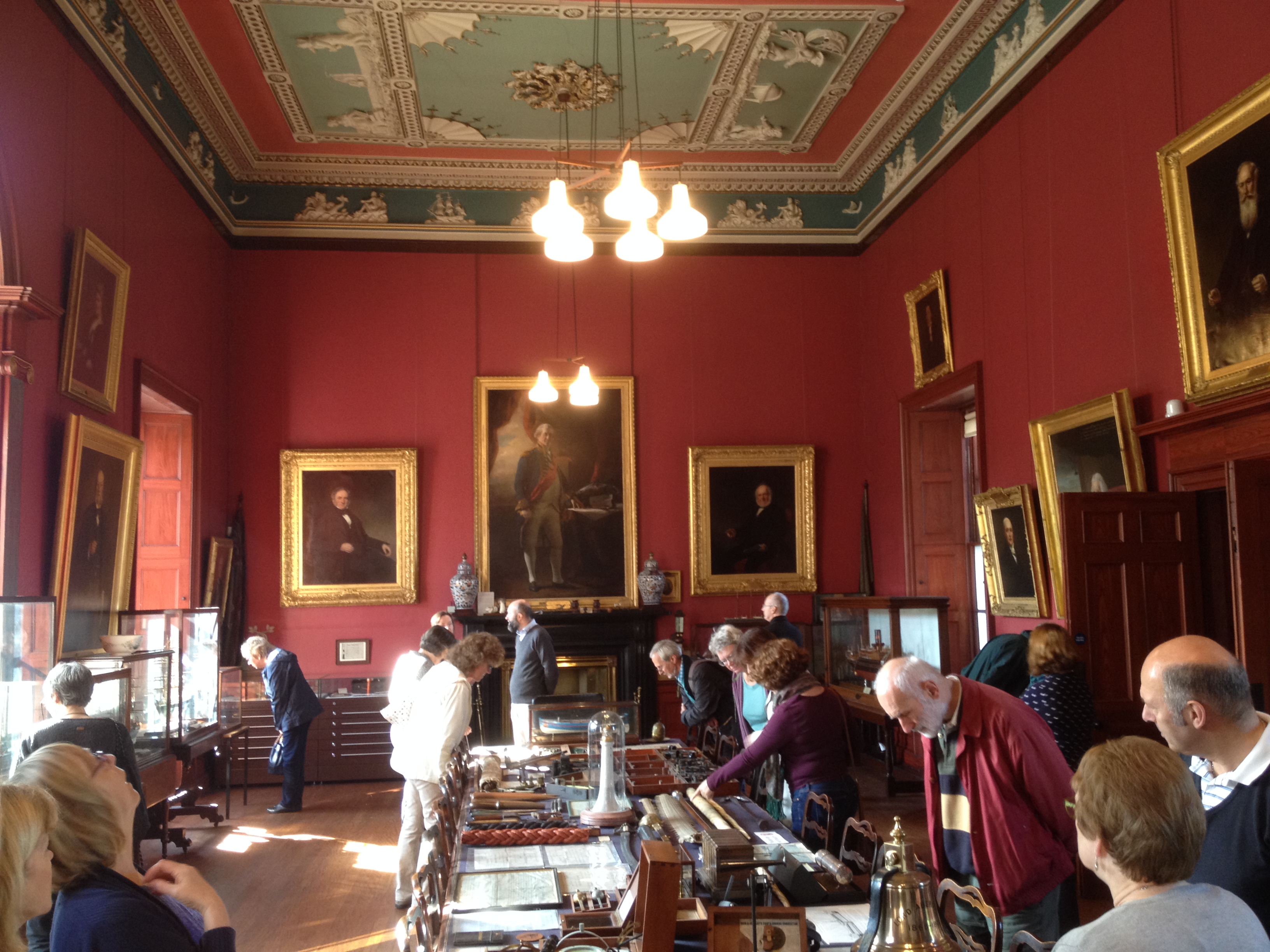 Convening Room Trinity House, Leith looking towards North wall